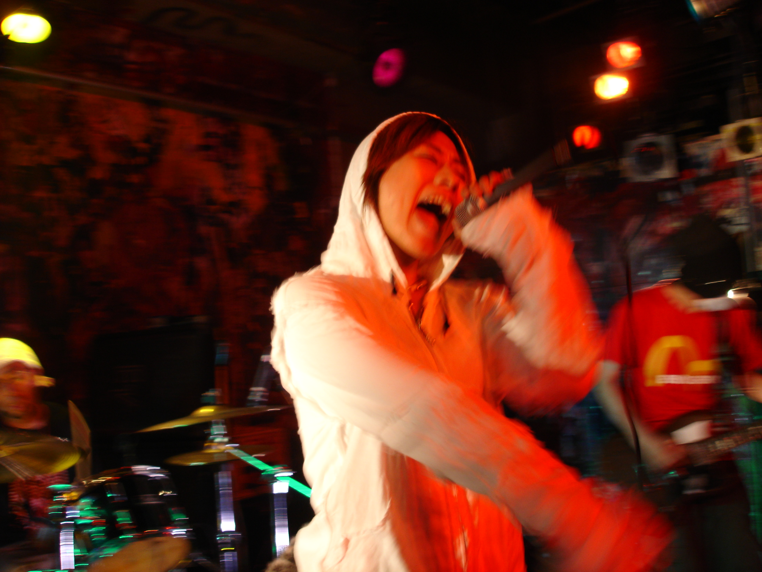 Yasuko Onuki, Melt-Banana's singer live in Japan (2005)